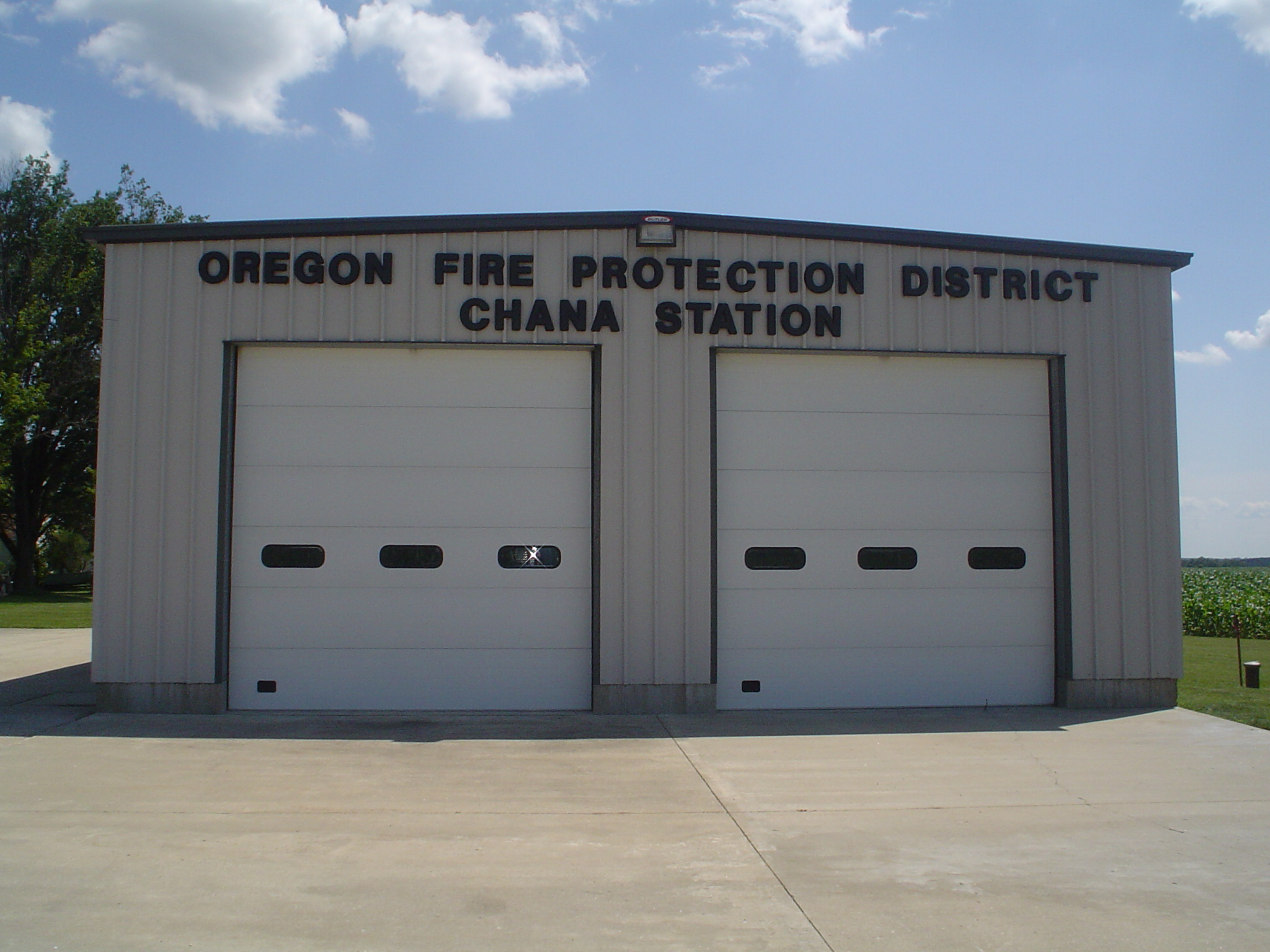 Oregon Fire Station located in Channa, Illinois, USA.